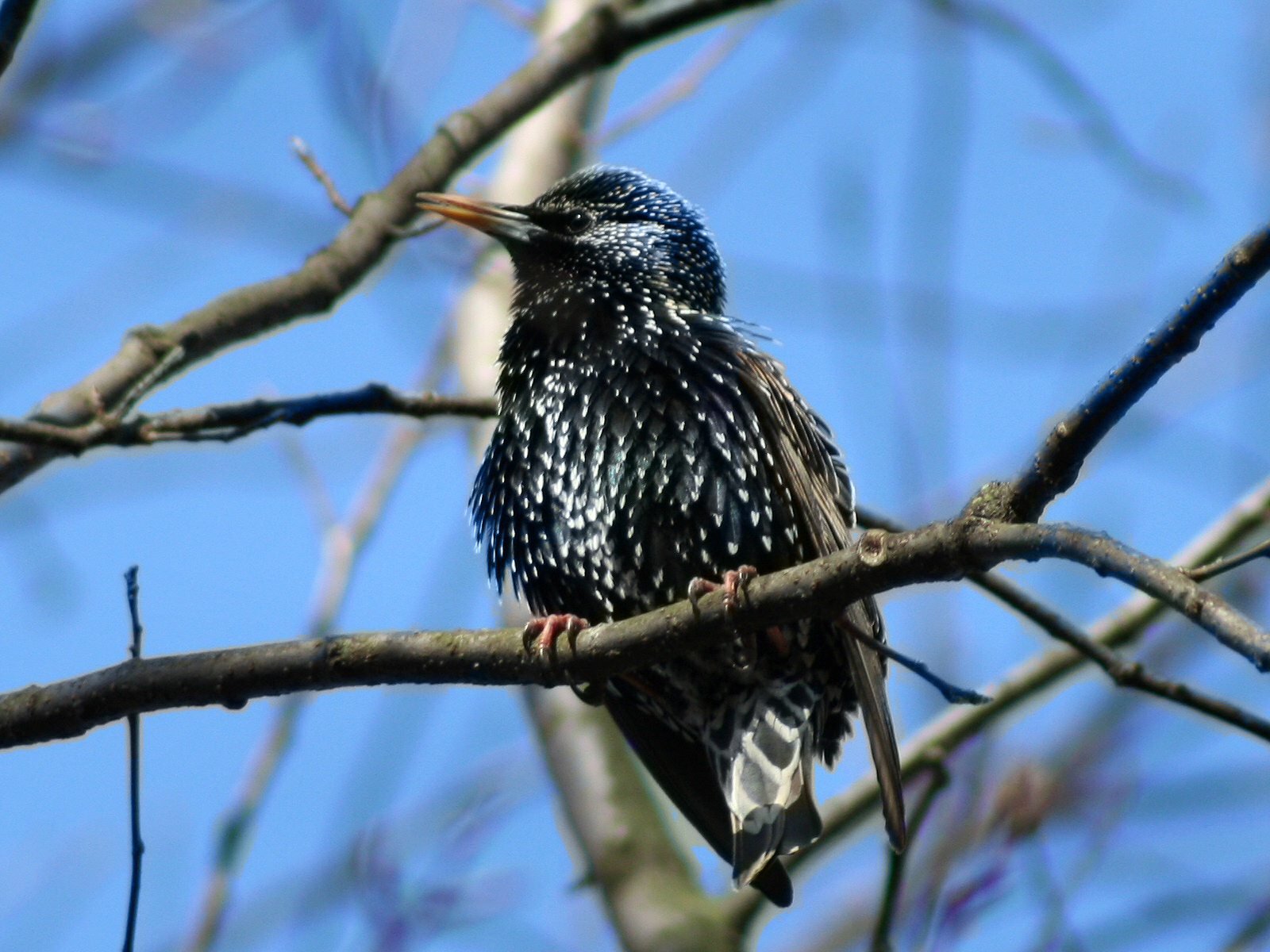 Sturnus vulgaris Szpak, Common Starling.